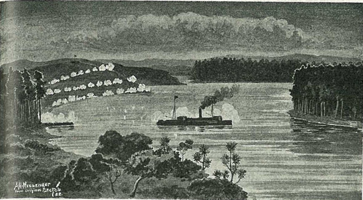 The gunboat "Pioneer" at Meremere. Drawn from a sketch by an officer of H.M.S. Curacoa.